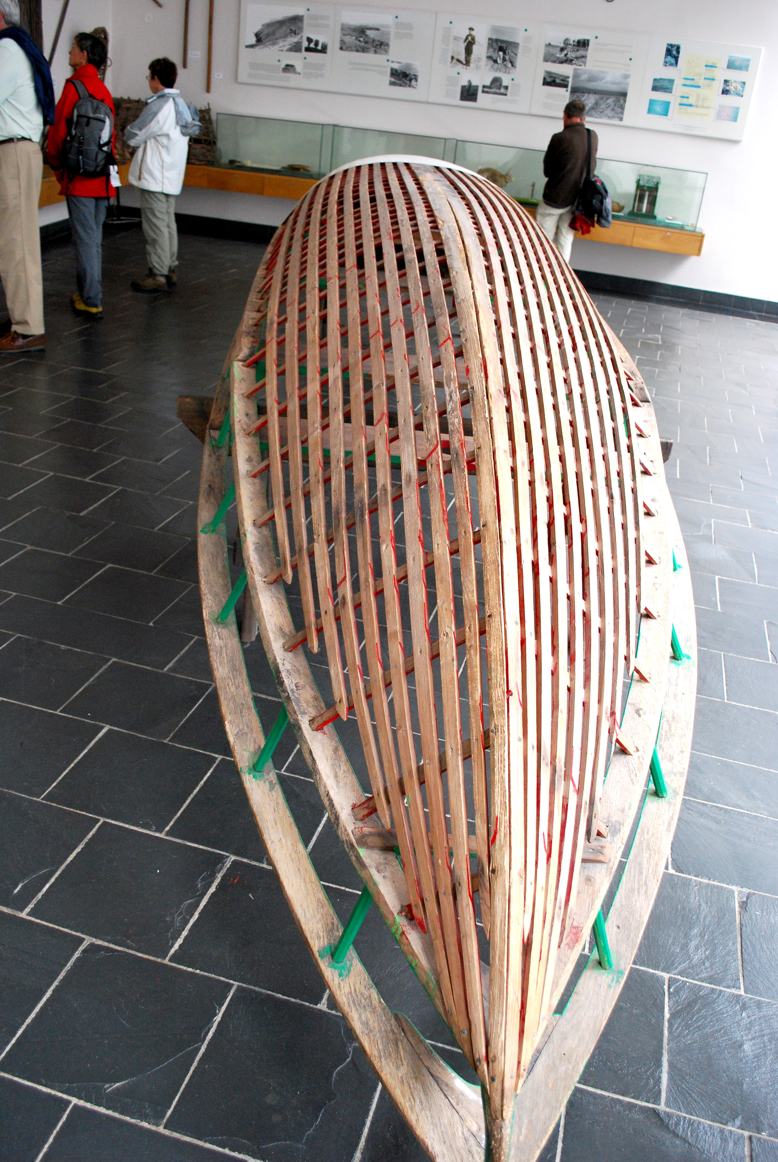 Currach Boat in Blasket Heritage Centre, Dunquin, County Kerry